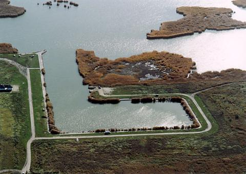 Lake Velencei , Hungary, aerialphotgraphy